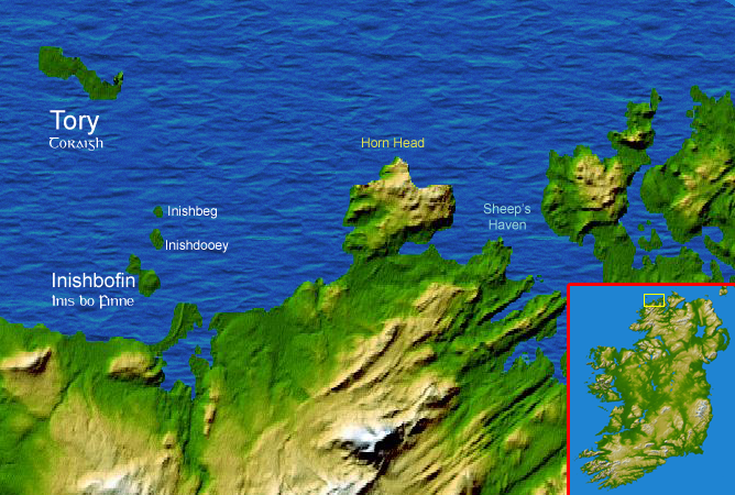 Map of Northwestern donegal